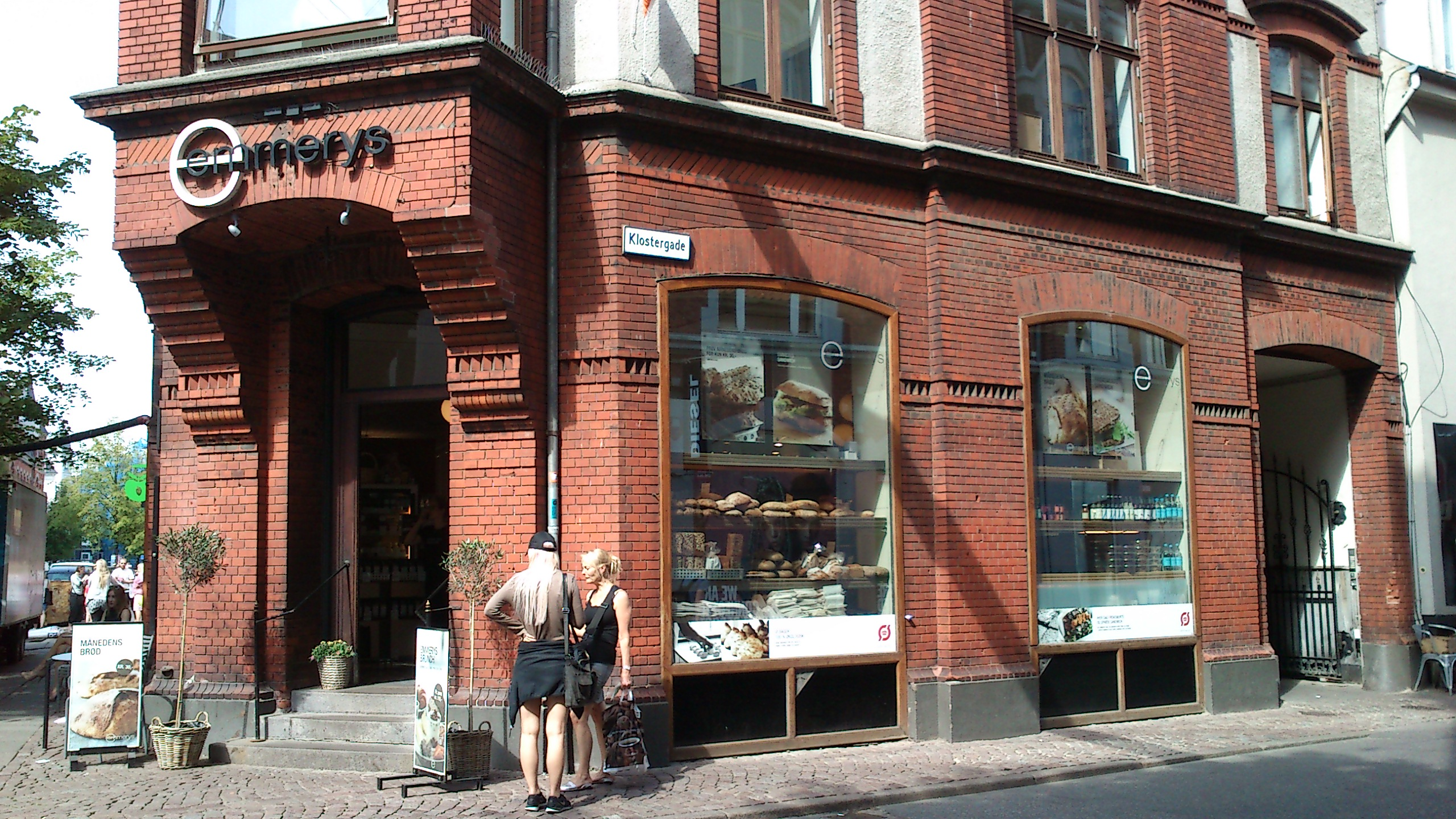 Emmerys at the corner of Guldsmedgade and Klostergade in Aarhus. Emmerys is a Danish chain of bakeries and cafées. This was the first and original store. Prior to that, it was a "Konditori" (a Danish version of the French patisserie) for many years, by the same name.